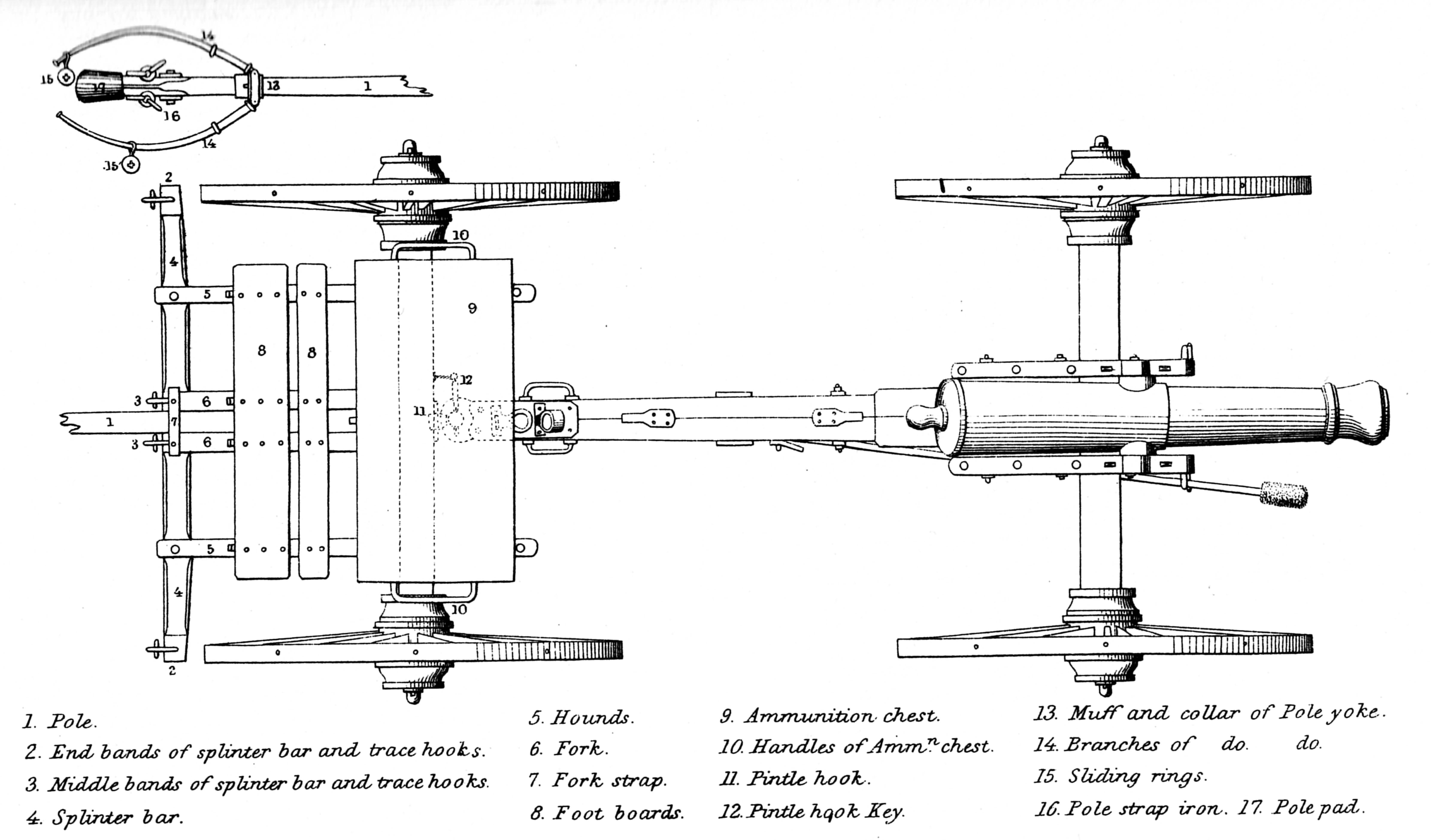 Line engraving of a field gun on a limber used in the American Civil War, top view